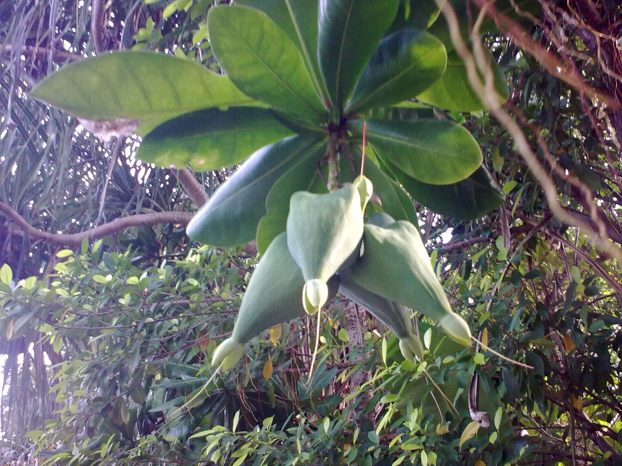 Barringtonia asiatica in Krabi, Thailand